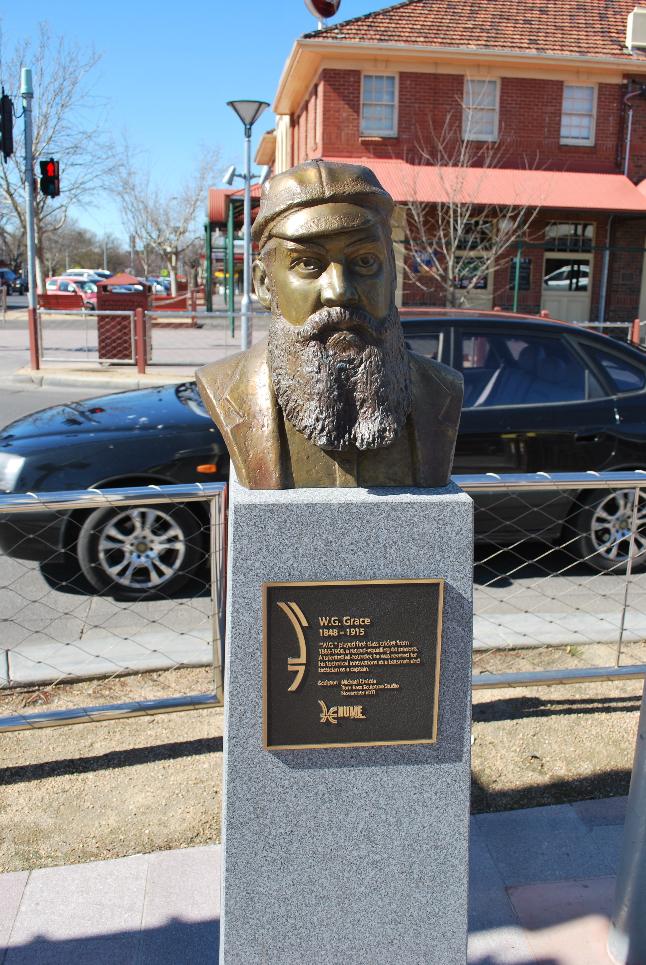 Bust of W. G. Grace at Sunbury, Victoria